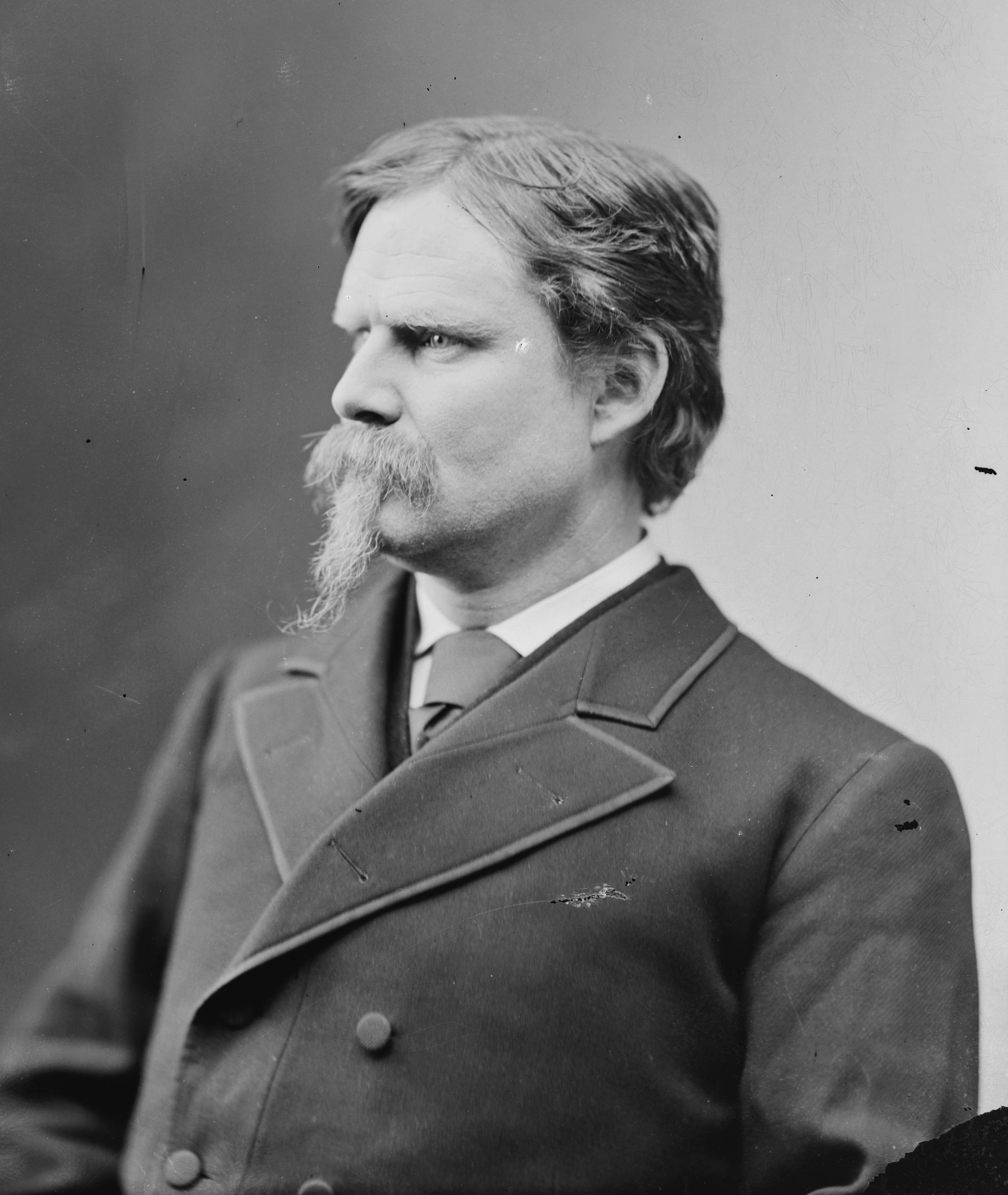 Henry Watterson. Library of Congress description: "Watterson, Hon. Henry of Ky".